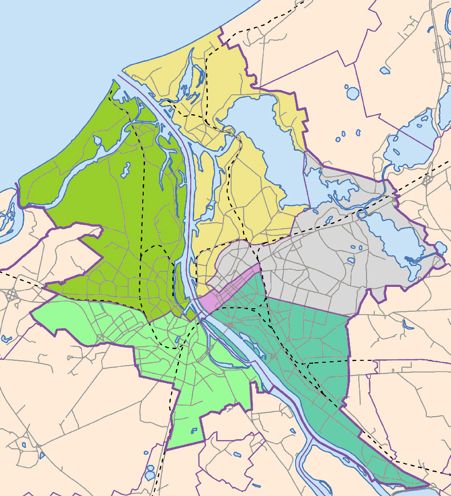 Map of Riga - city administration structure.